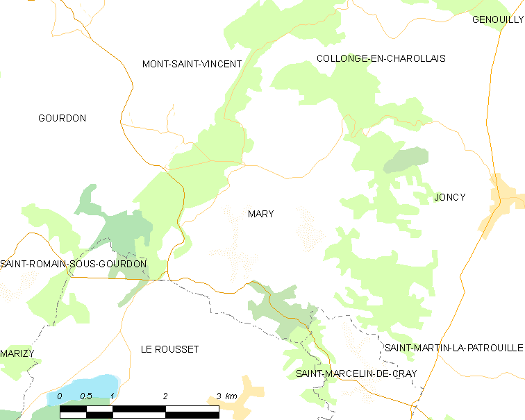 Map of French municipality